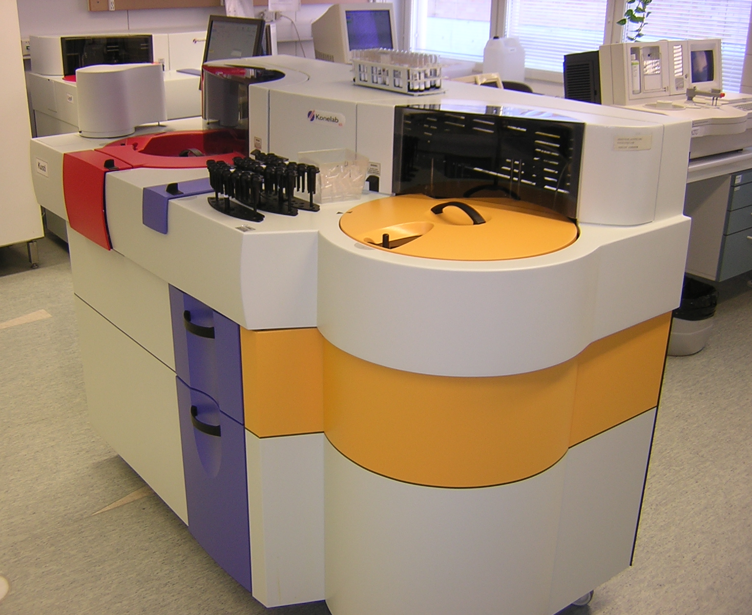 Analyzer for clinical Chemistry, Konelab 60i